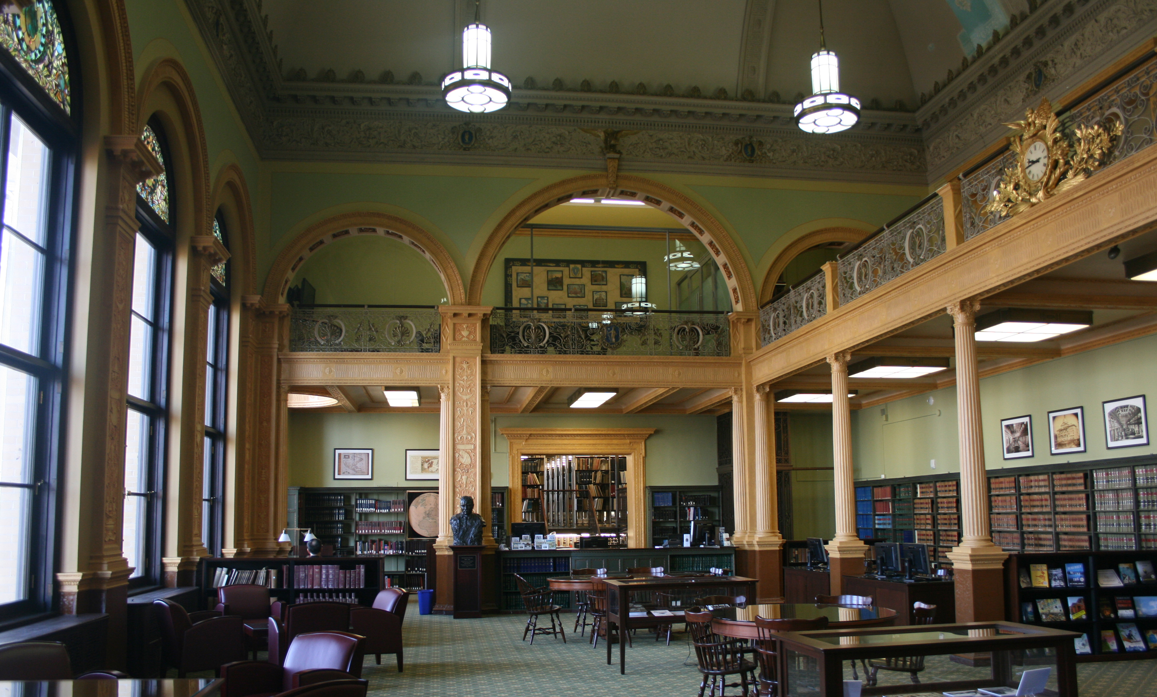 Reading Room of the State Library of Massachusetts in the Massachusetts State House, Boston